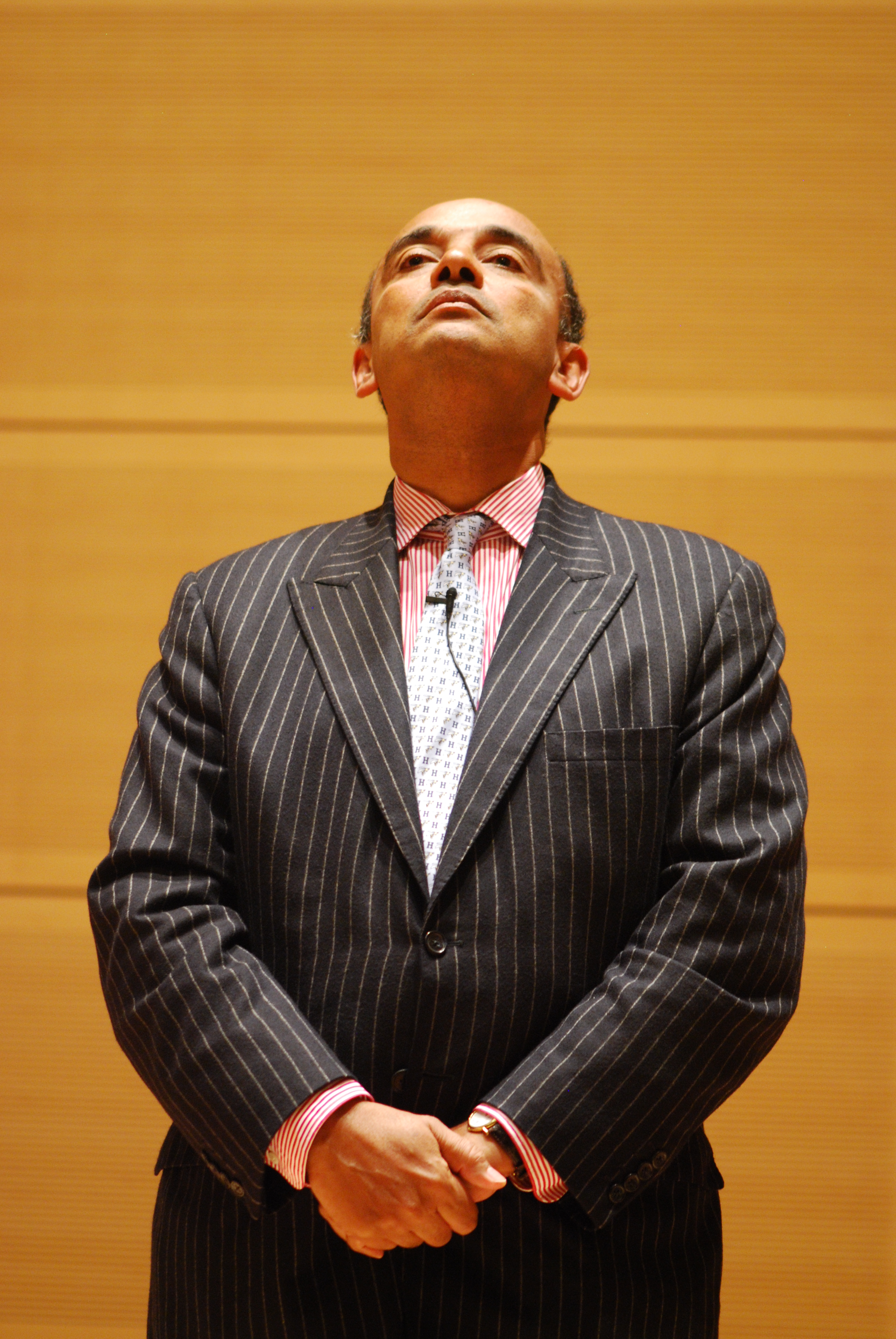 Princeton University professor Kwame Anthony Appiah, at Syracuse University's S.I. Newhouse School of Public Communications.